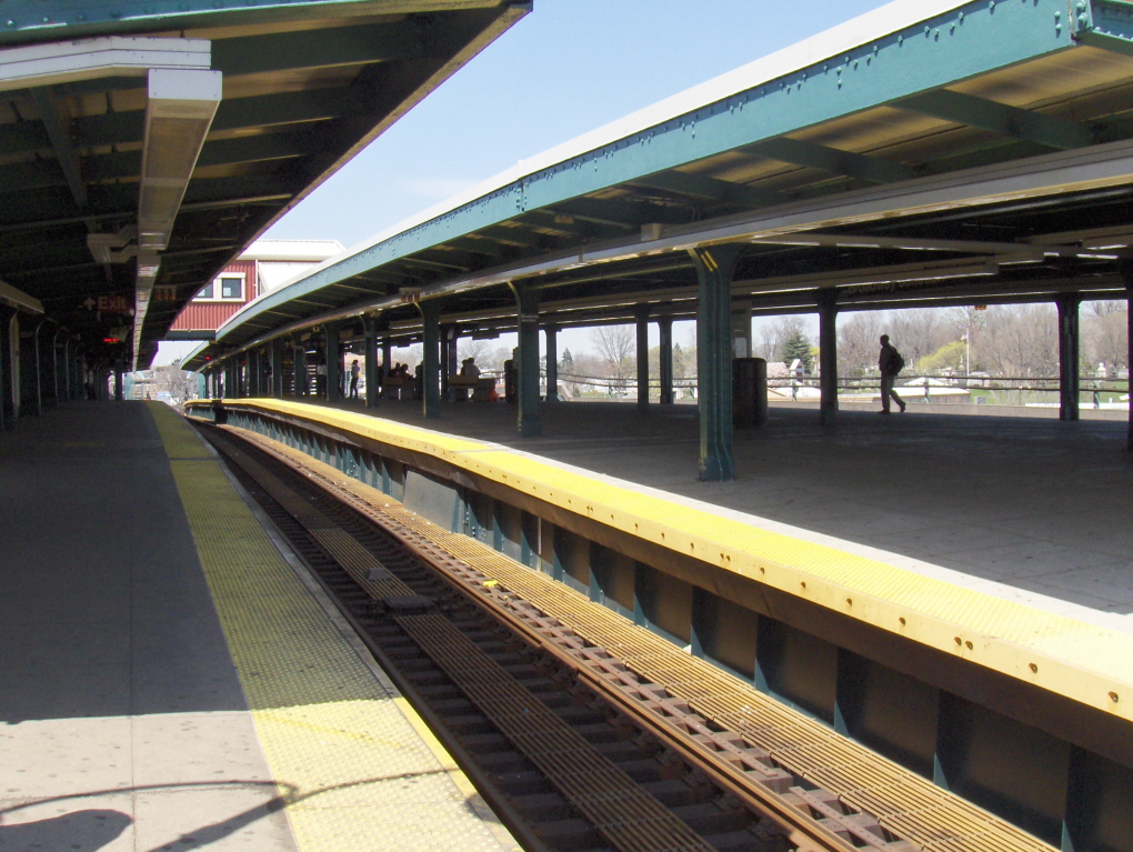 L train platform of Broadway Junction